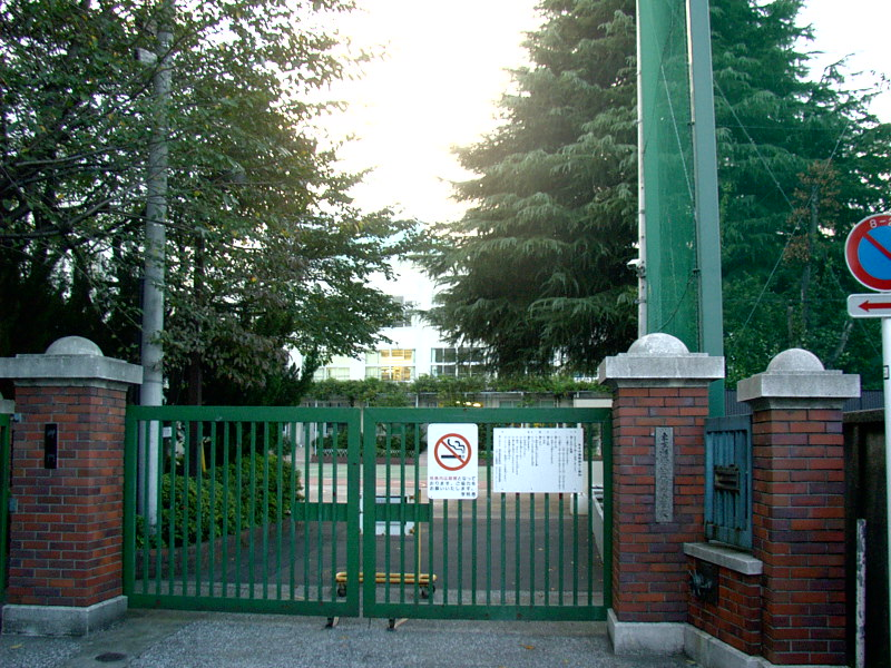 御田小学校 (Rice field elementary school) one of the oldest elementary schools in Japan in Mita, Minato ward, Tokyo, Japan